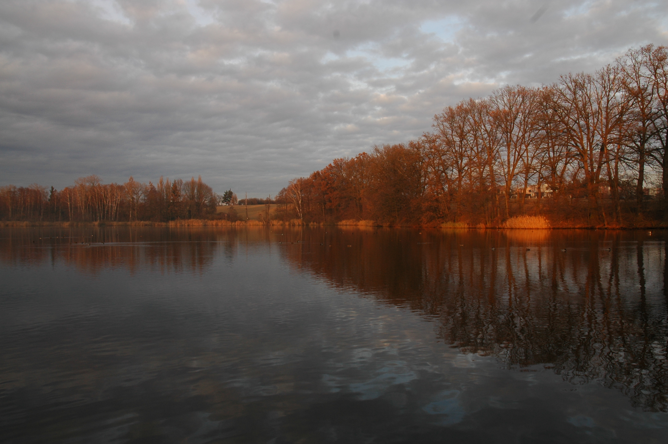 National monument Nový rybník u Soběslavi in Tábor District, Czech Republic